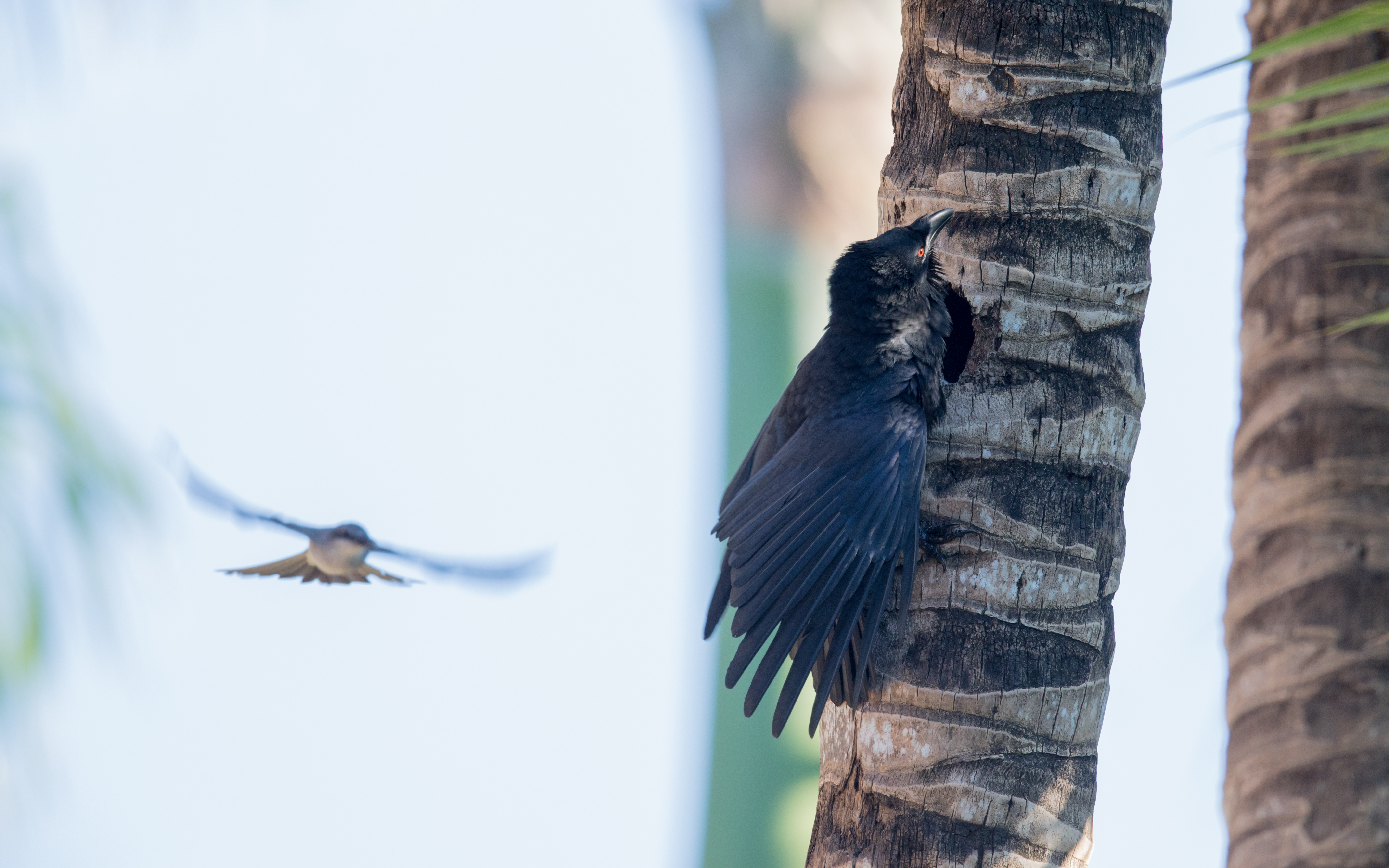 White-necked Crow attacked by Kingbird while checking tree hollow for food. Photo taken near Bayahibe, Dominican Republic.